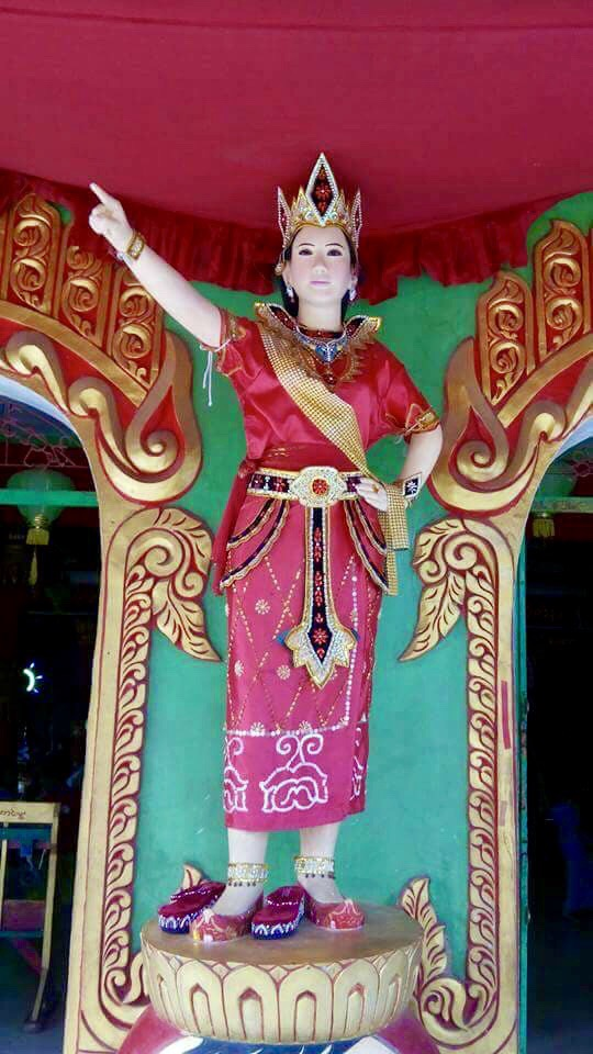 Pan Htwar was the Queen of Beikthano, the ancient cities of the Pyu Kingdom. She was a strong spiritual lady of war and fame.